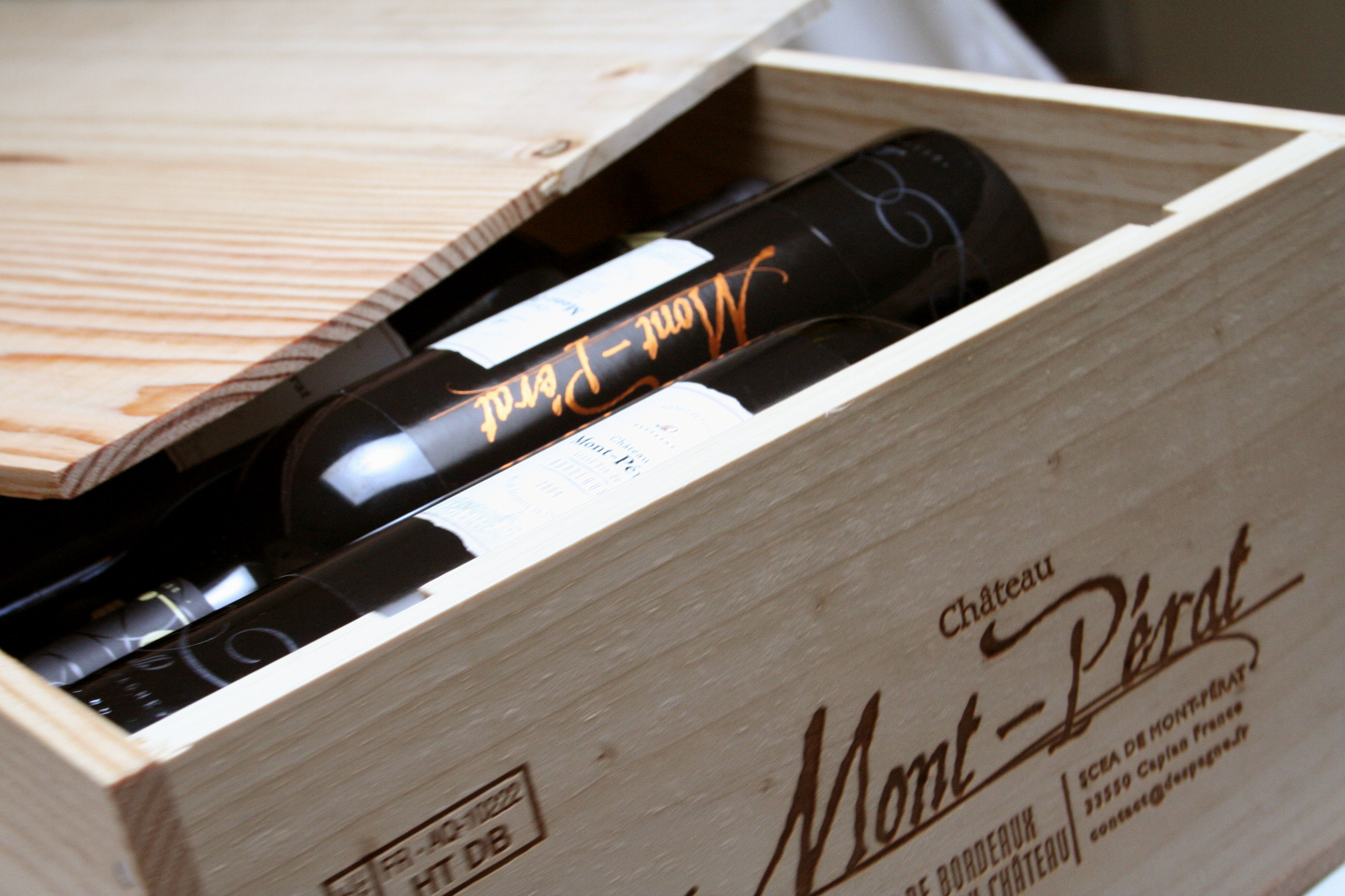 12 bottles wood case of Chateau Mont-Pérat